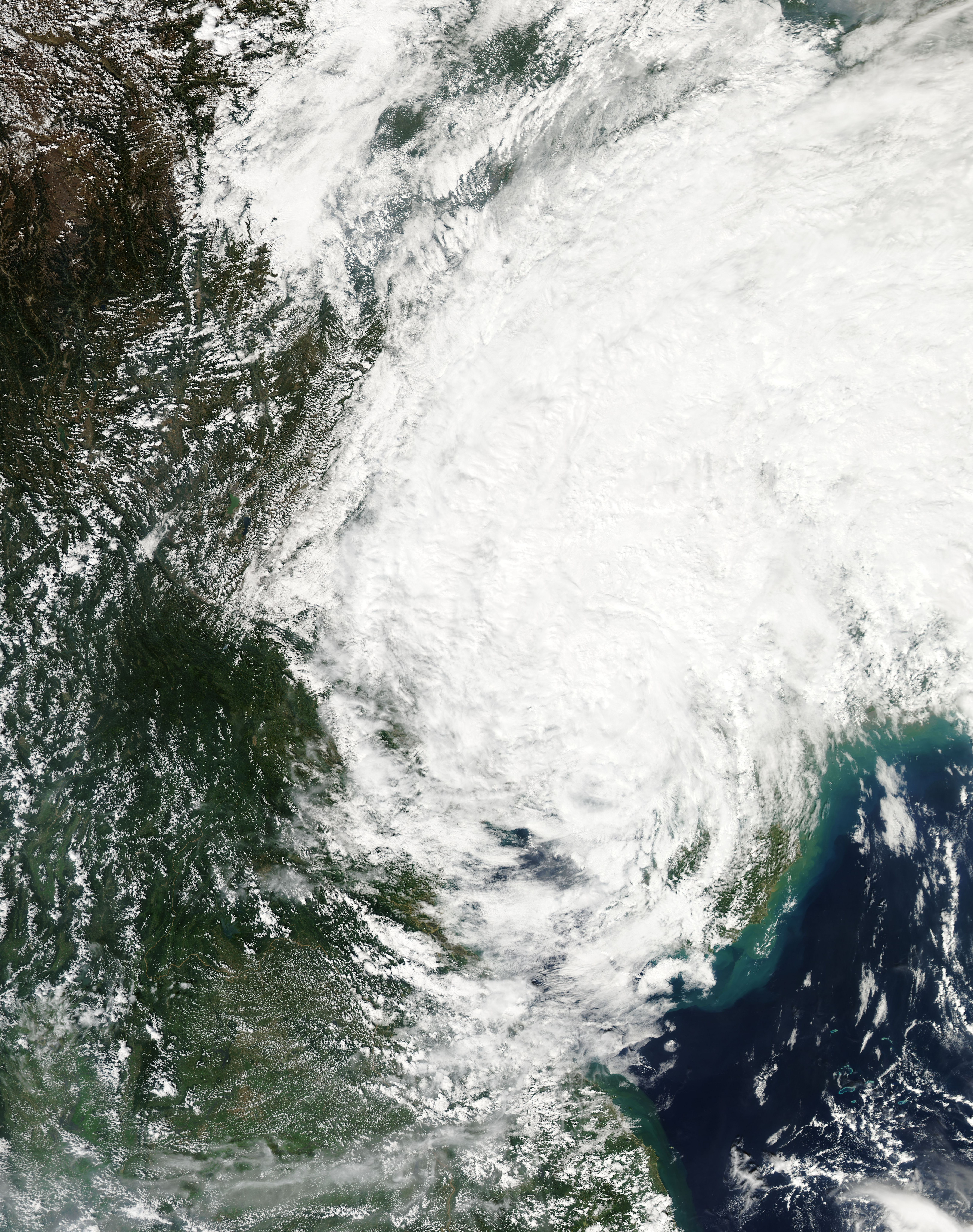 Tropical Depression Sarika shortly before dissipating inland on October 19, 2016